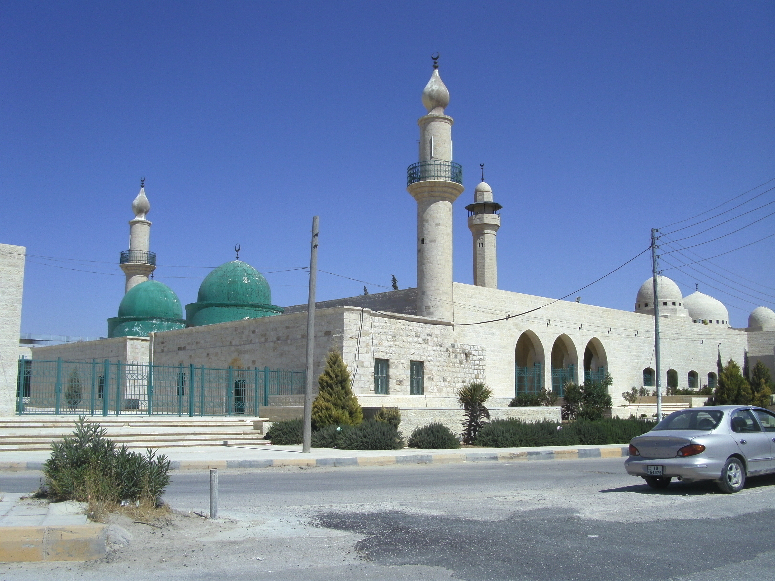 Ja’far’s tomb is located in Al-Mazar, near Kerak, Jordan. It is enclosed in an ornate shrine of gold and silver made by the Dawoodi Bohra’s 52nd Da’i, Mohammed Burhanuddin.